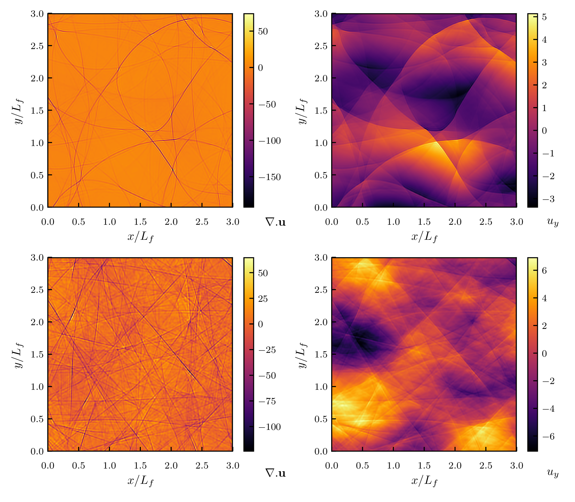 Simulations of shallow water equations can be dominated by shock waves. Here, two different simulations runs with wave forcing are plotted (top and bottom). The bottom run has a wave speed 20 times more than the top run. To the left, divergence of the velocity is plotted, where the shocks appear as negative valued thin lines. This is because if we follow the direction of shock propagation, the velocity suddenly drops across the shock line. See the plots on the right for one of the components of velocity.